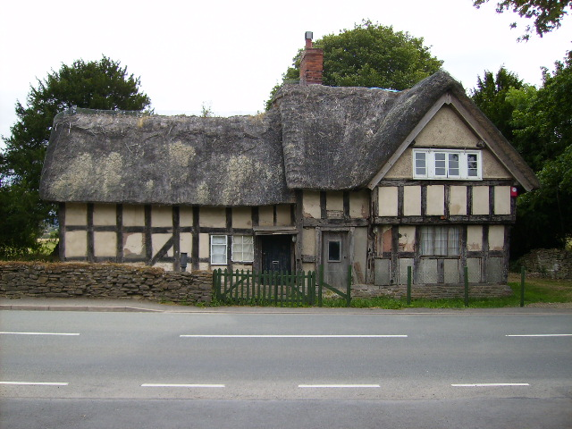 Thatched house in Bircher in need of TLC.